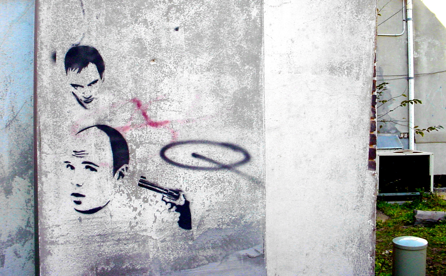 Stencils by Q of a gun, Karl Pilkington, and Quentin Tarantino adorn a wall in Augusta. Photo by Sir Mildred Pierce. Original here